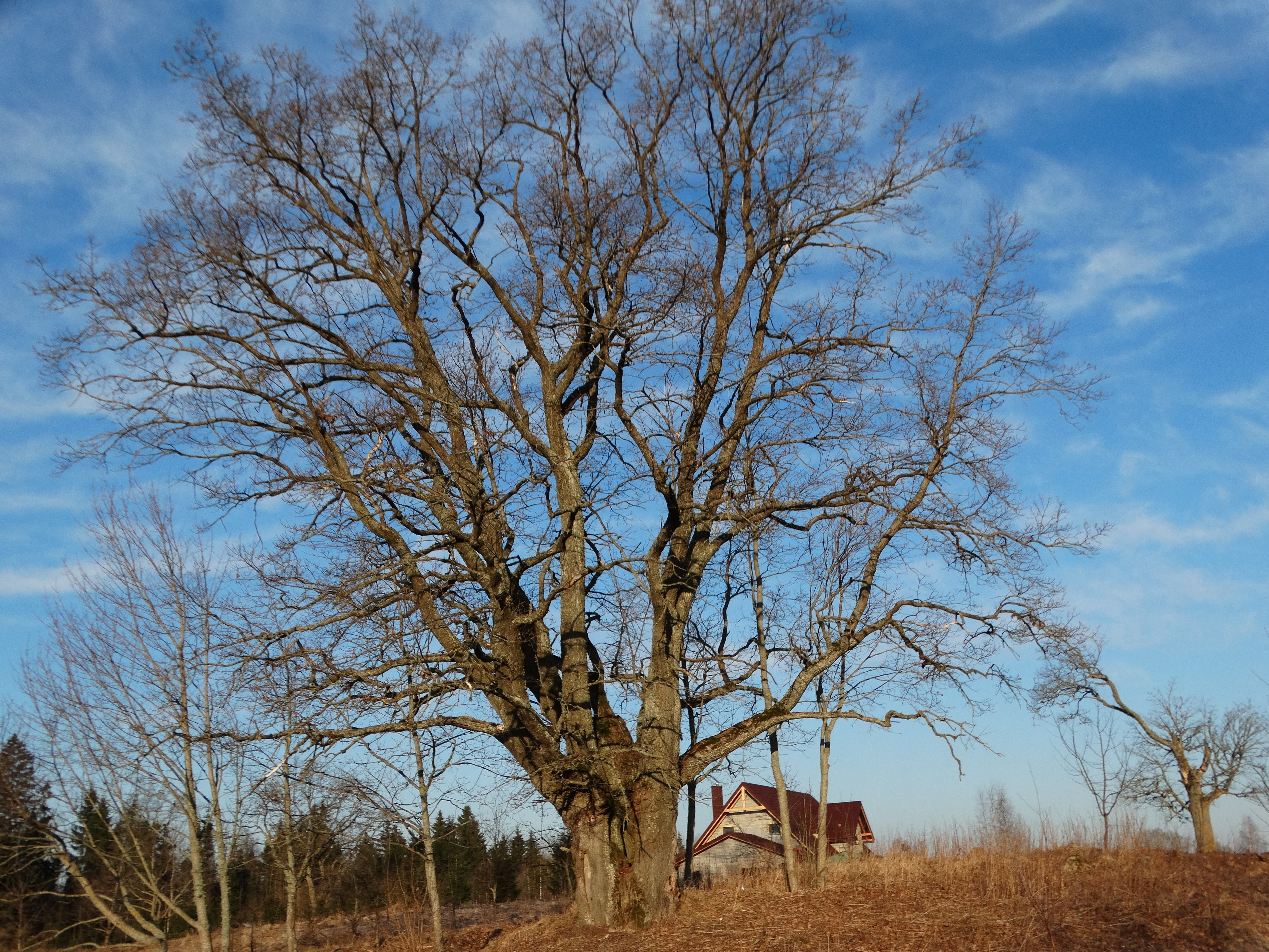 Oak, Visgirdai, Šiauliai district, Lithuania